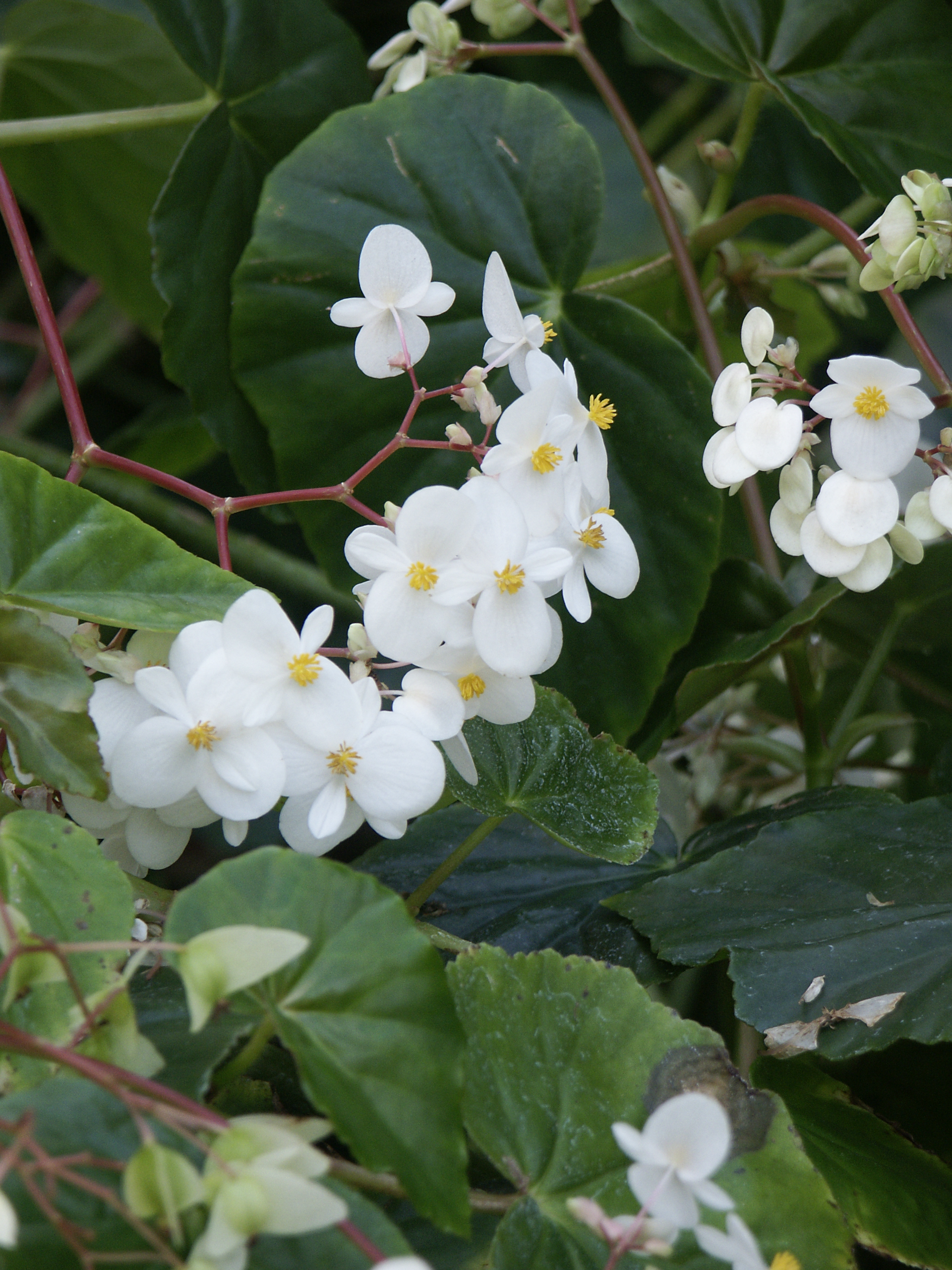 Fairchild Tropical Botanic Garden, Miami, Florida, USA.